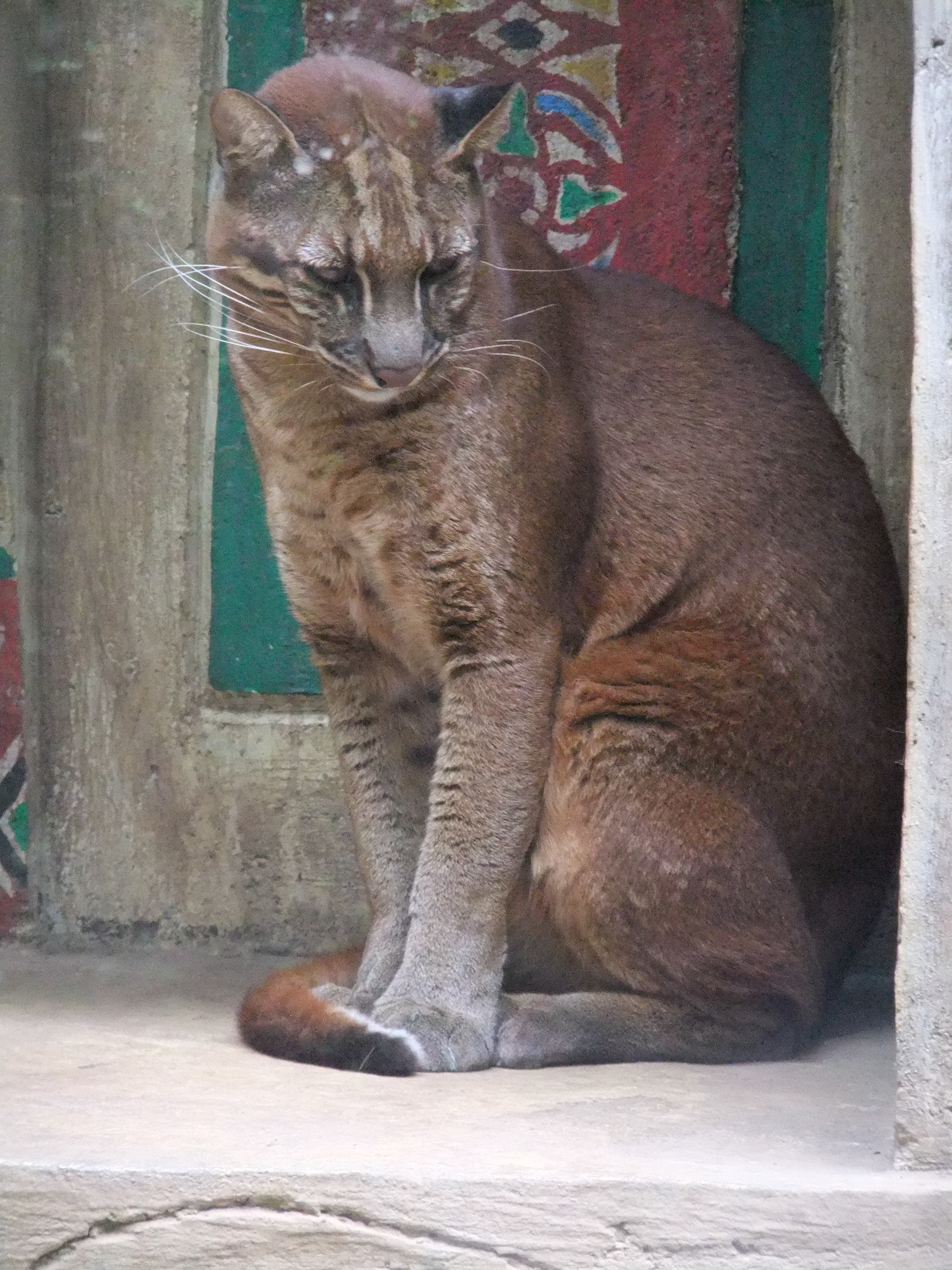 Asian Golden Cat, Catopuma temminckii